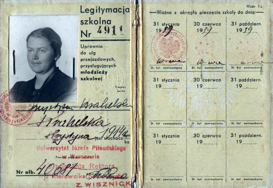 Krystyna Krahelska (1914-1944) ID Card issued by Warsaw University